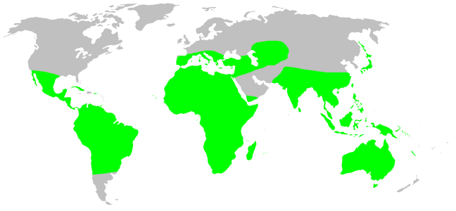 Prodidomidae habitat distribution, drawn after Platnick: World Spider Catalog 7.0. This is not at all a precise rendering of the distribution! If you have better information, please replace this map, or send me the info, and i will redraw it.